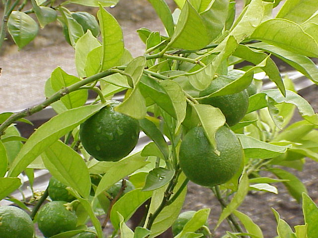 Species: Citrus sinensis Family: Rutaceae Image No. 1